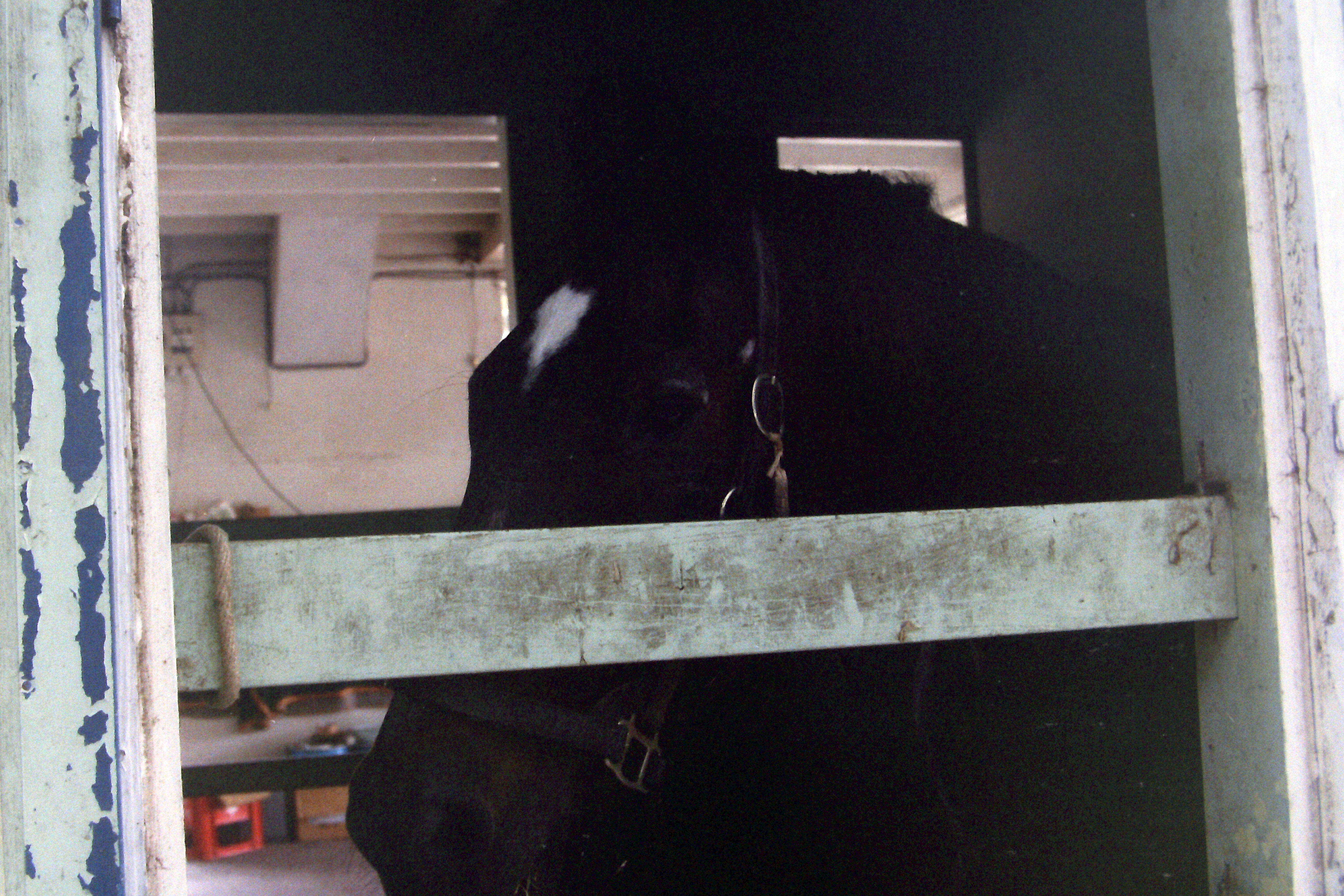 Shinzan, in his very late year at Tanigawa Farm